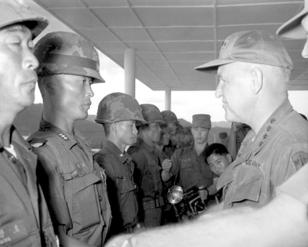 General Abrams presents Bronze Stars to soldiers of the Tiger Division